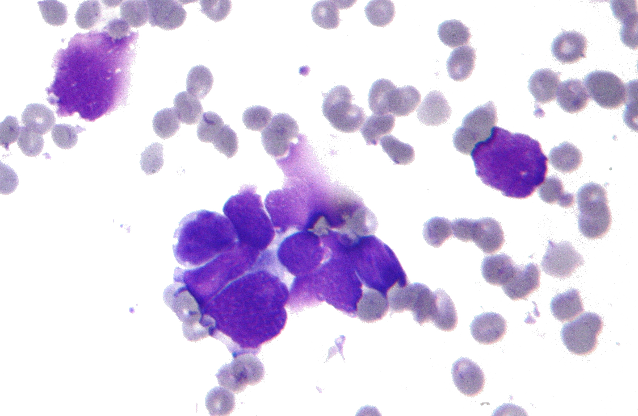 Micrograph of small cell carinoma of the lung, also small cell lung cancer. FNA specimen. Field stain. The image shows the key features of small cell lung cancer (SCLC): Nuclear moulding. Salt and pepper chromatin. Scant cytoplasm. Small cell is so named as the tumour cells are small relative to other carcinomas, e.g. adenocarcinoma; small cell has large cells relative to most lymphomas. Related images Squamous cell carcinoma.